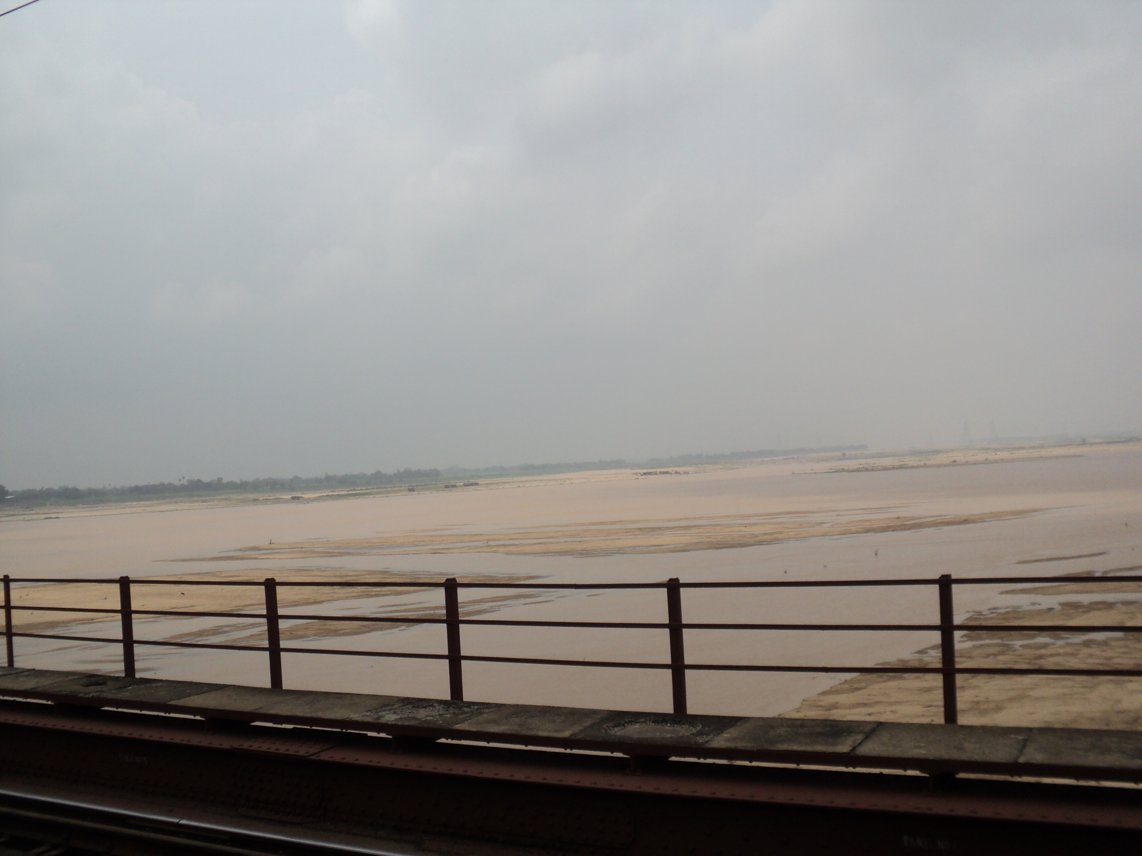 Son in Danapur, Near Patna, Bihar